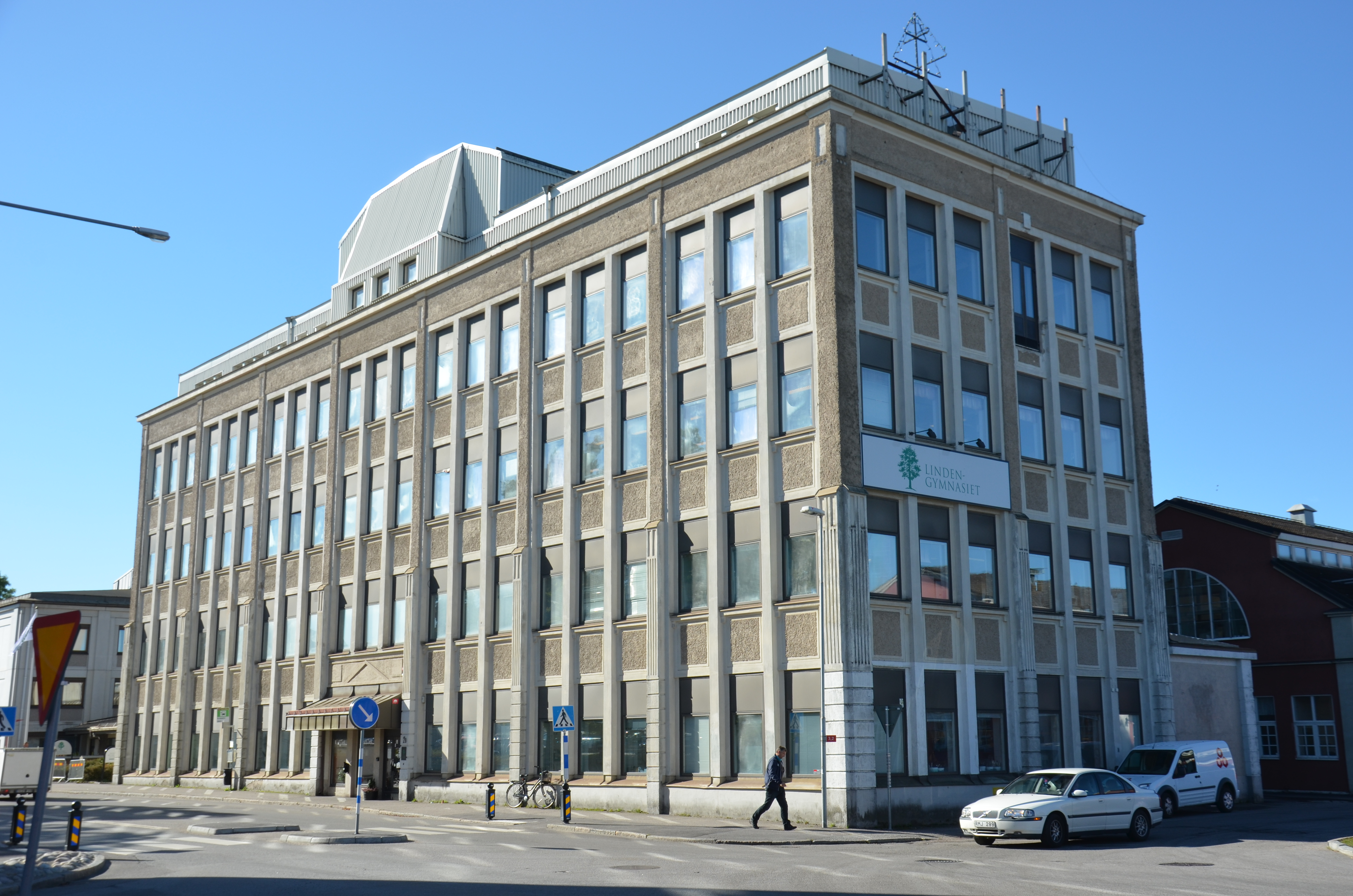 Lindengymnasiet i Katrineholm